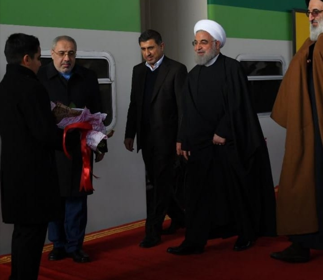 مترو شهر جدید هشتگرد